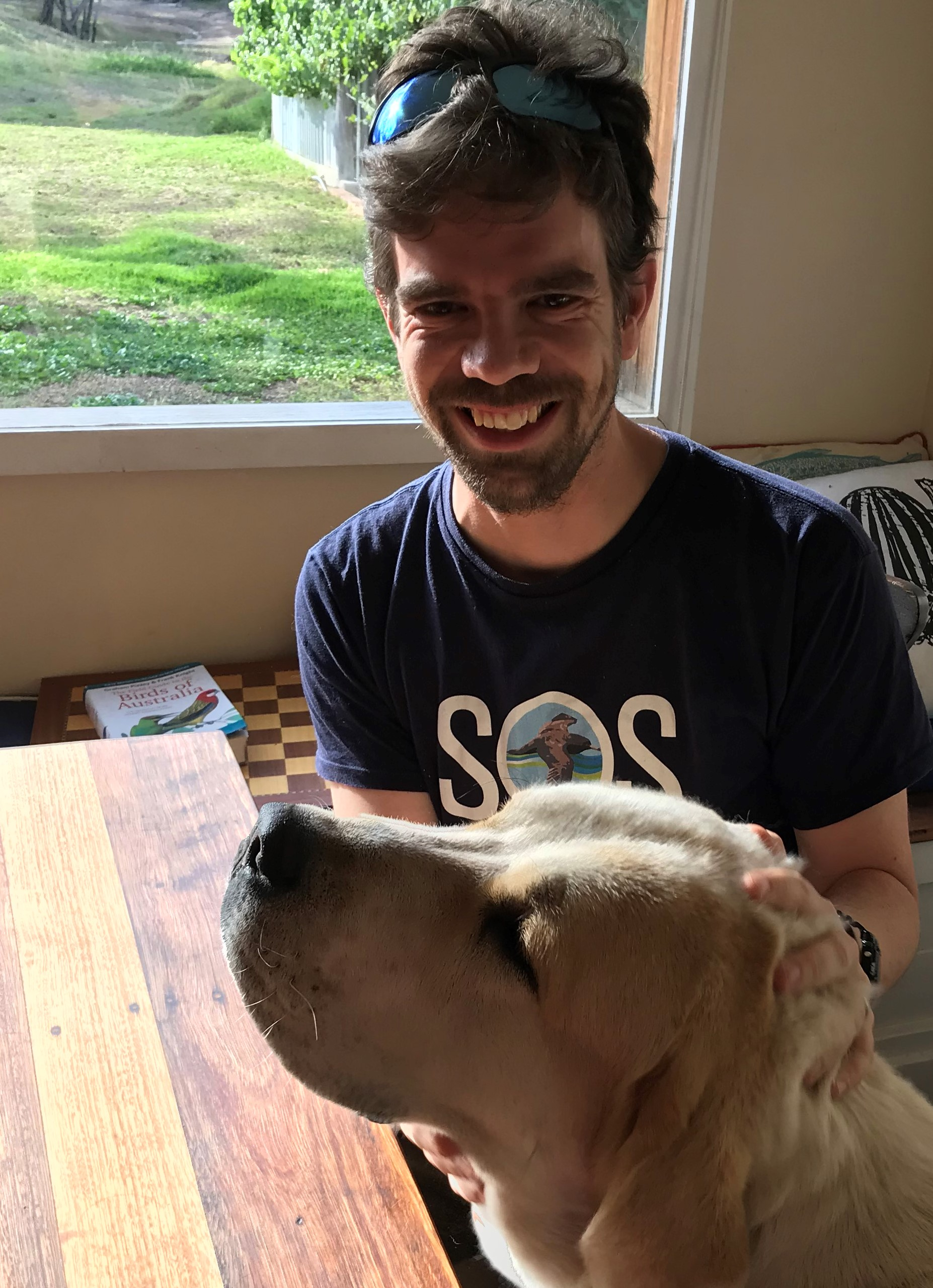 This photograph is of the conservation scientist, Dr Alex Bond during a visit to Australia in 2018. He is petting a CAO dog named Alfie.